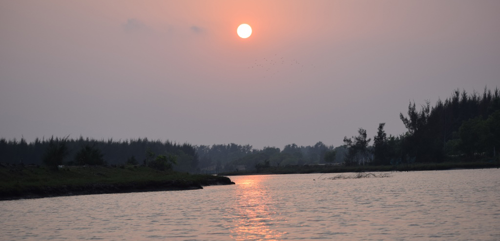 Sunset at Anshupa lake